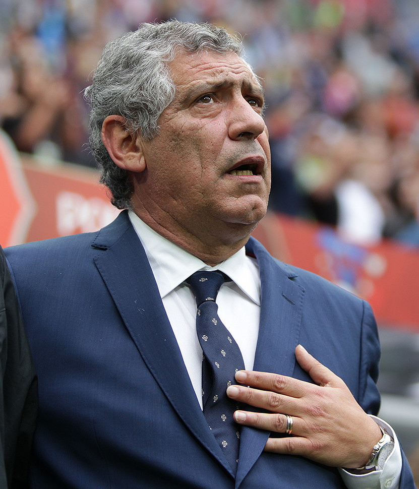 New Zealand VS. Portugal 0 - 4, 24 June 2017